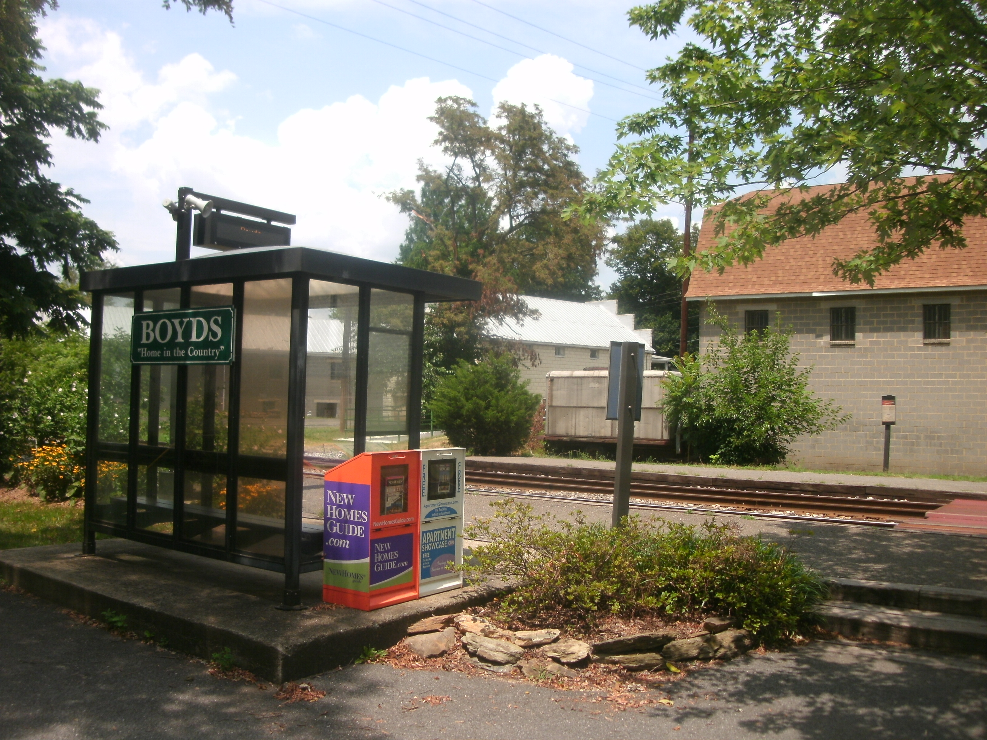 The Boyds station facing the shelter on the Washington-bound platform.